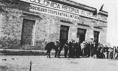 The coperative of Colonia Regina, at the end of the 1920s